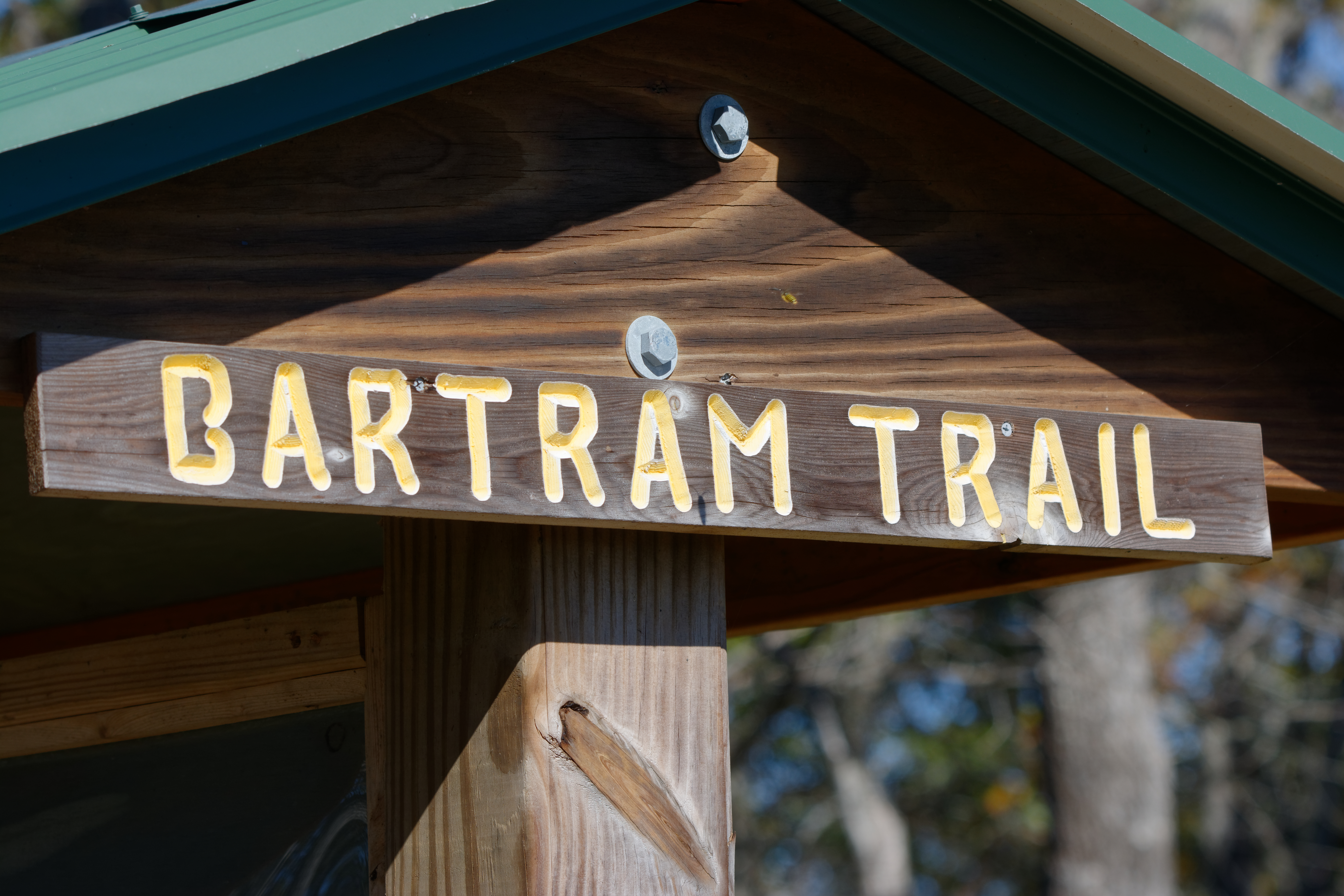 Bartram Trail sign, Wayah Bald, North Carolina, in the Nantahala National Forest